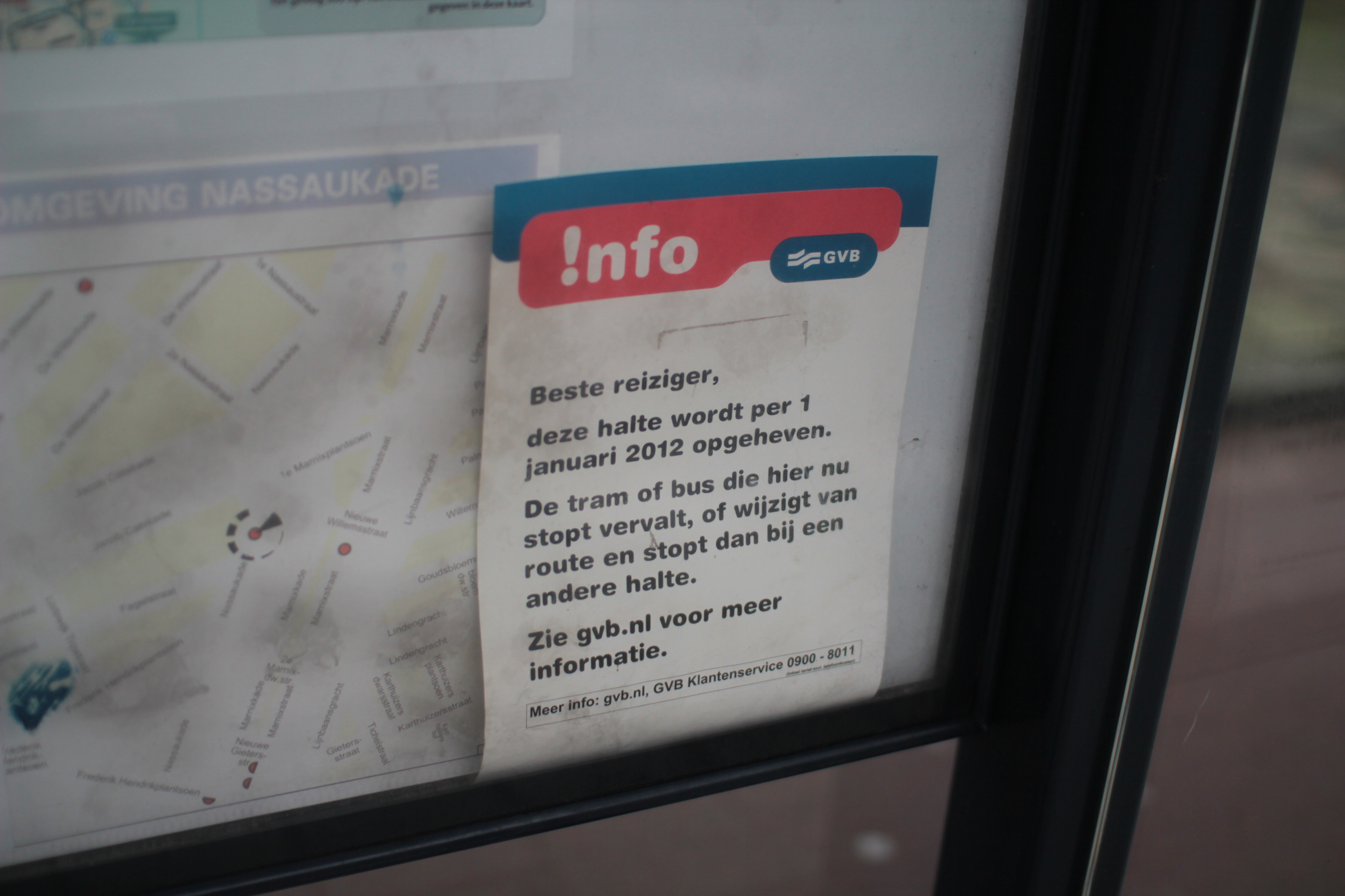 Notice telling the termination of services at the last stop of bus 60